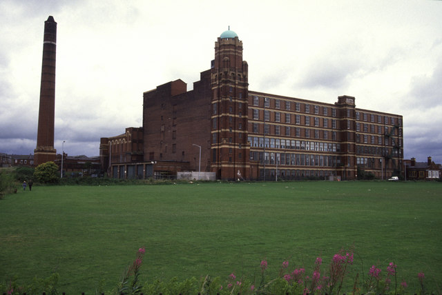 Butts Mill, Leigh - Cotton spinning mill designed by Stott & Sons of Oldham. The plain brick end wall gives the game away - this was designed with the intention of being doubled in size but it never happened. The mill engine was big enough to do a double mill and you can see the end of the engine house overlaps the end of the mill. There were several examples of this and Pear Mill, Bredbury is an example that springs to mind.